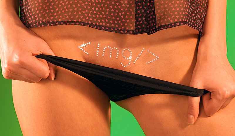 Photographer's original decription: is HTML tag that embeds an image in a web page.. Pelvic region of a woman with jewels with the image tag. She is pulling her underwear down in a suggestive way.